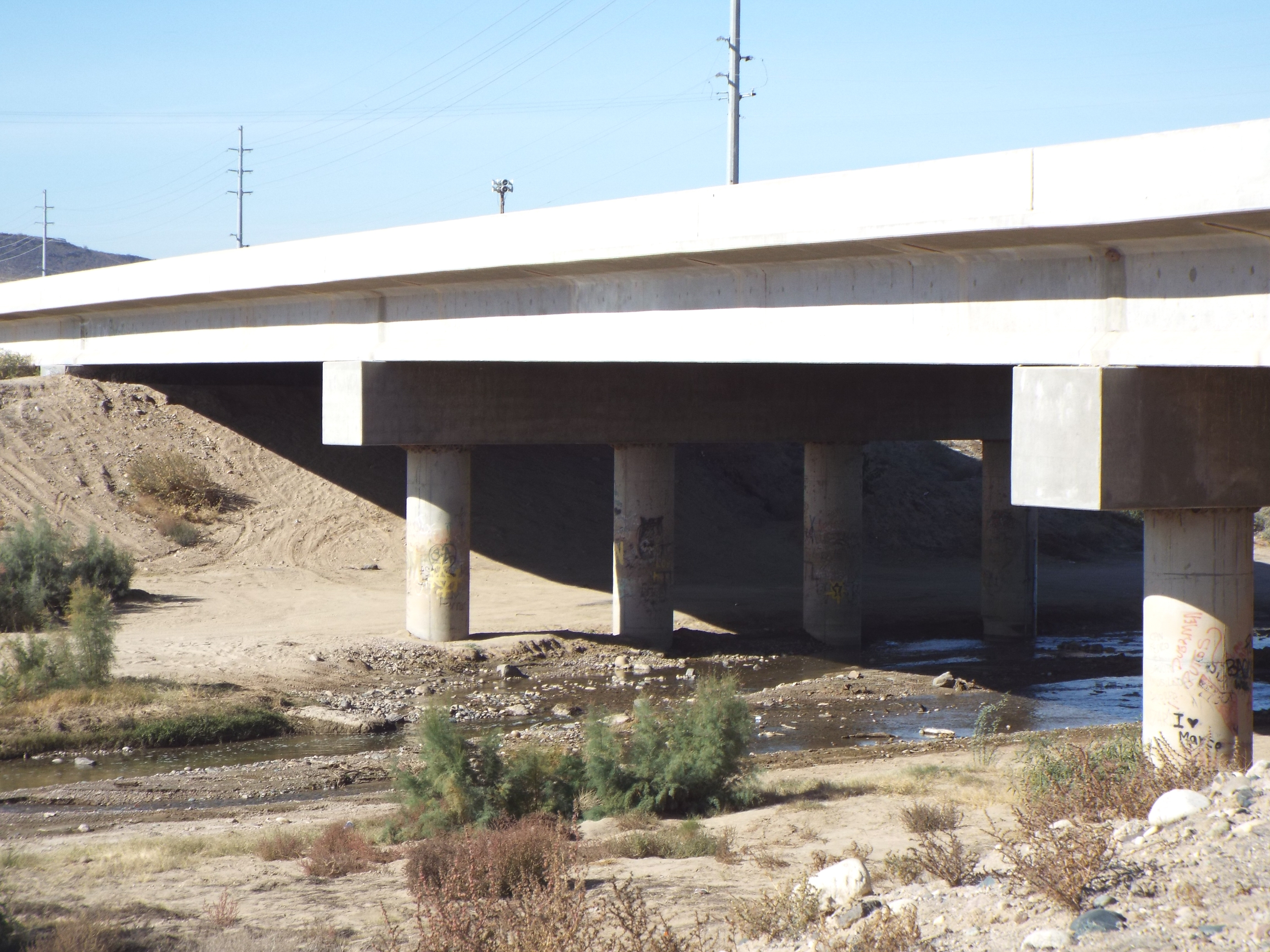 The historic Hassayampa Bridge. The bridge was built in 1929 and was modified and repaired in 1993. The bridge, which is described as a Concrete slab and girder, is located in the Old U.S. Highway Route 80 over the Hassayampa River between Salome Highway and 309 Ave. in the areas of Hassayampa and Arlington within the boundaries of the town of Buckeye, Az. The bridge was listed in the National Register of Historic Places in September 30, 1988, reference #88001658.